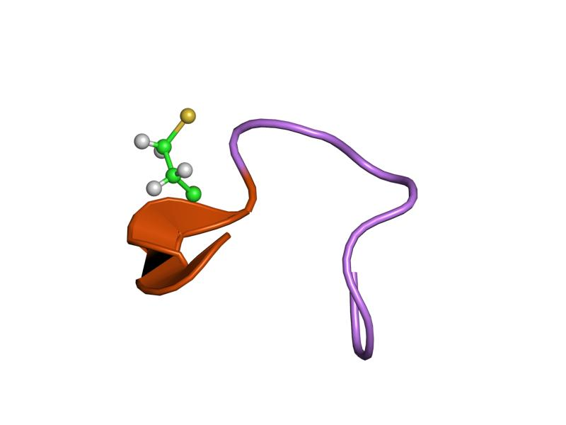 Cartoon representation of the molecular structure of protein registered with 1etm code.